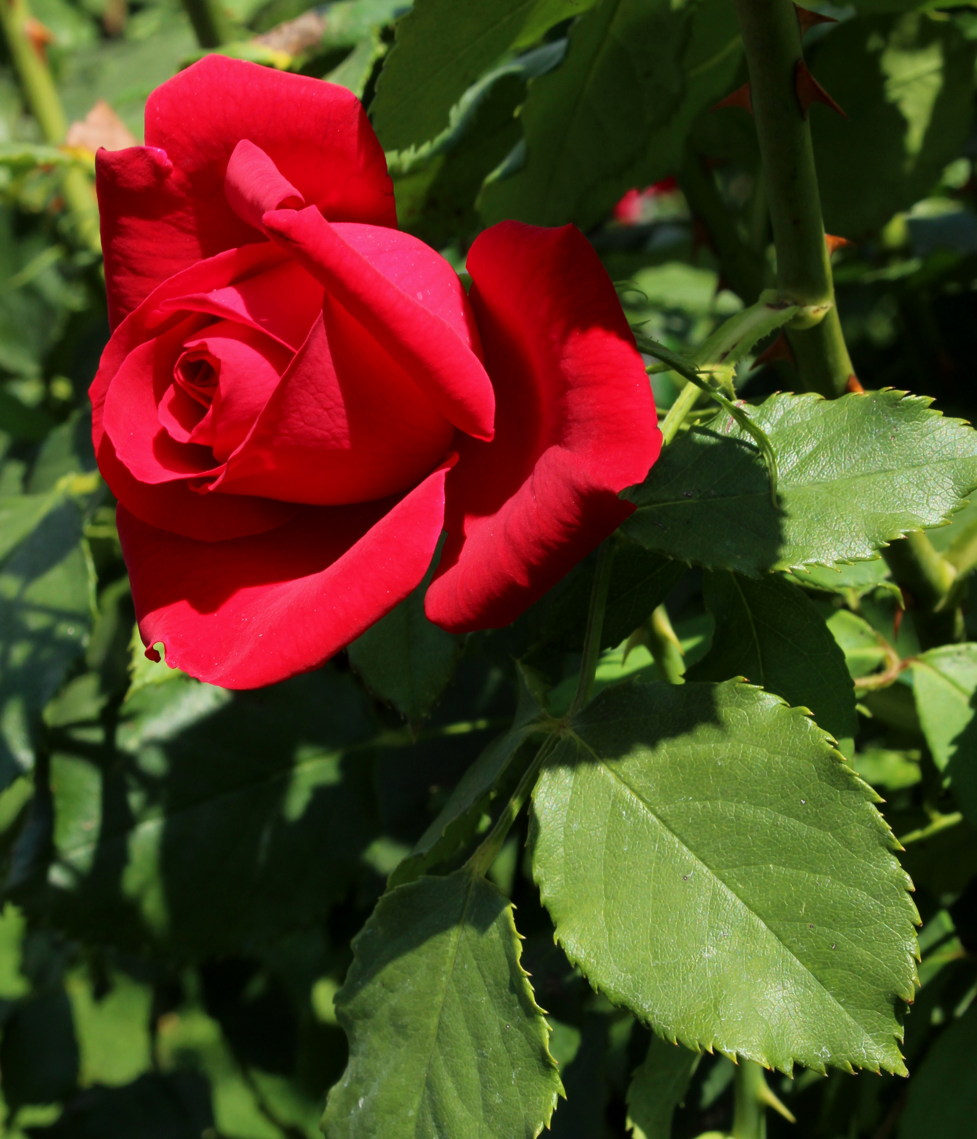 Rosa 'Olympiad' in the Volksgarten in Vienna. Identified by sign.